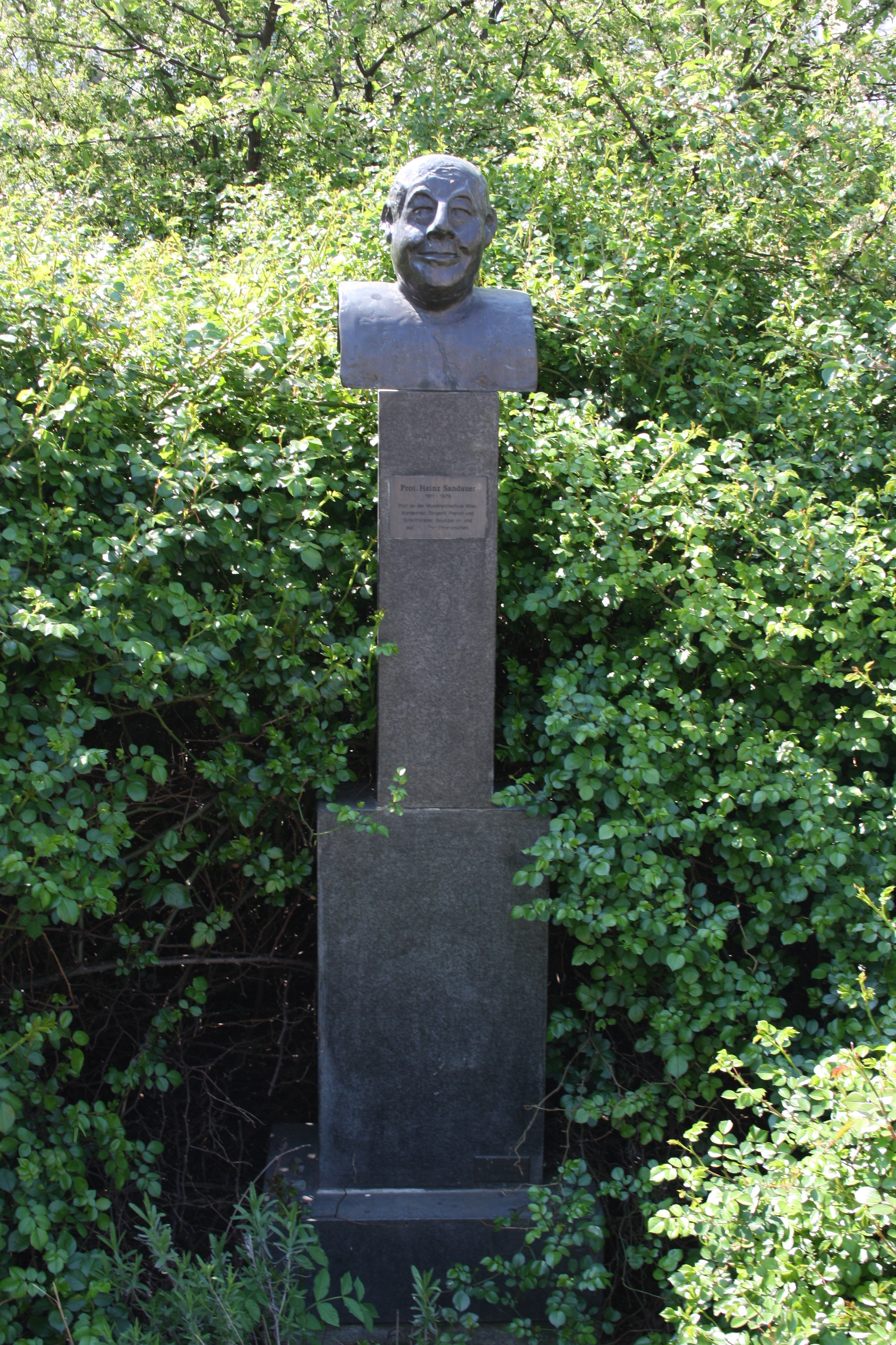 Bust of Heinz Sandauer. Schuberpark, 18th district of Vienna.